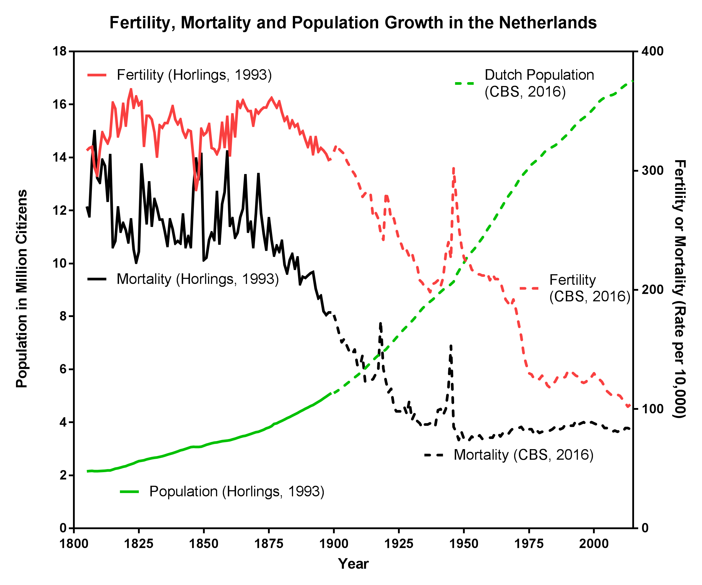 Fertility rate, mortality rate and population growth in the Netherlands between 1807 and 2016 [Source: Horlings, 1993; CBS Statistics Netherlands, 2016]